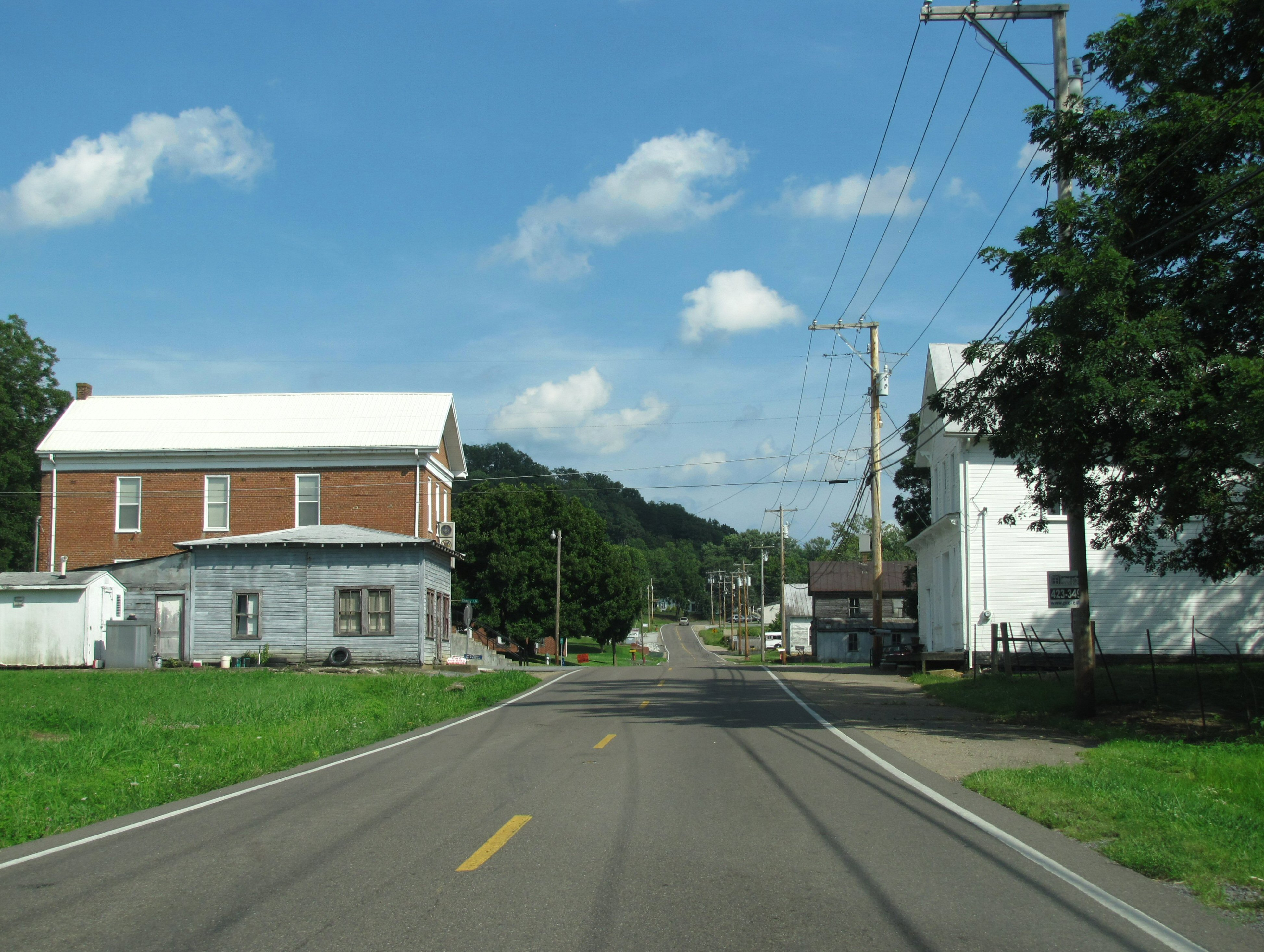 Tennessee State Route 93 in the Fall Branch community of Washington County, Tennessee, United States.